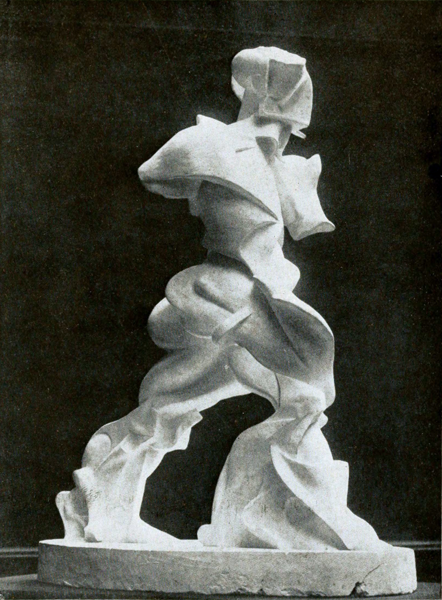 Umberto Boccioni, Spiral Expansion of Muscles in Action, plaster, photograph published in 1914.